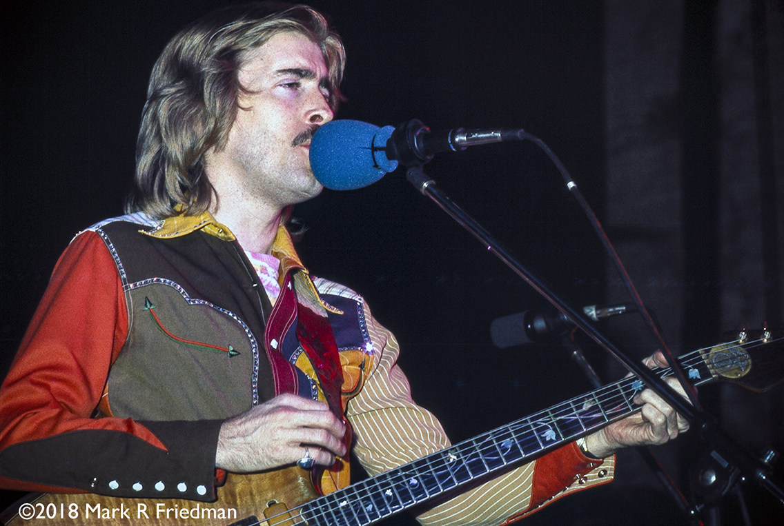 Photographed 11/29/1973 either at the Academy of Music or The Palladium in NY